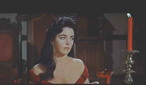 Free screenshot from Public Domain Trailer of movie: House of Usher (1960)